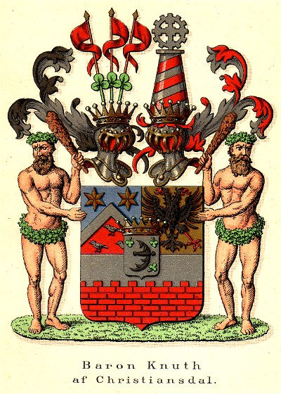 Coat of arms of the Knuth-Christiansdal family